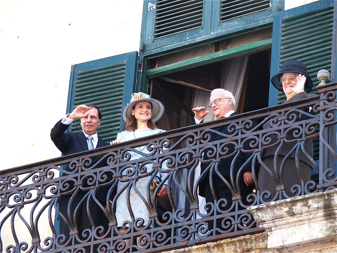 DR. GEORGE ABELA HAS BEEN SWORN AS THE NEW PRESIDENT OF MALTA AT THE PALACE' S GRAND COUNCIL CHAMBER IN VALLETTA, MALTA 4th. APRIL 2009